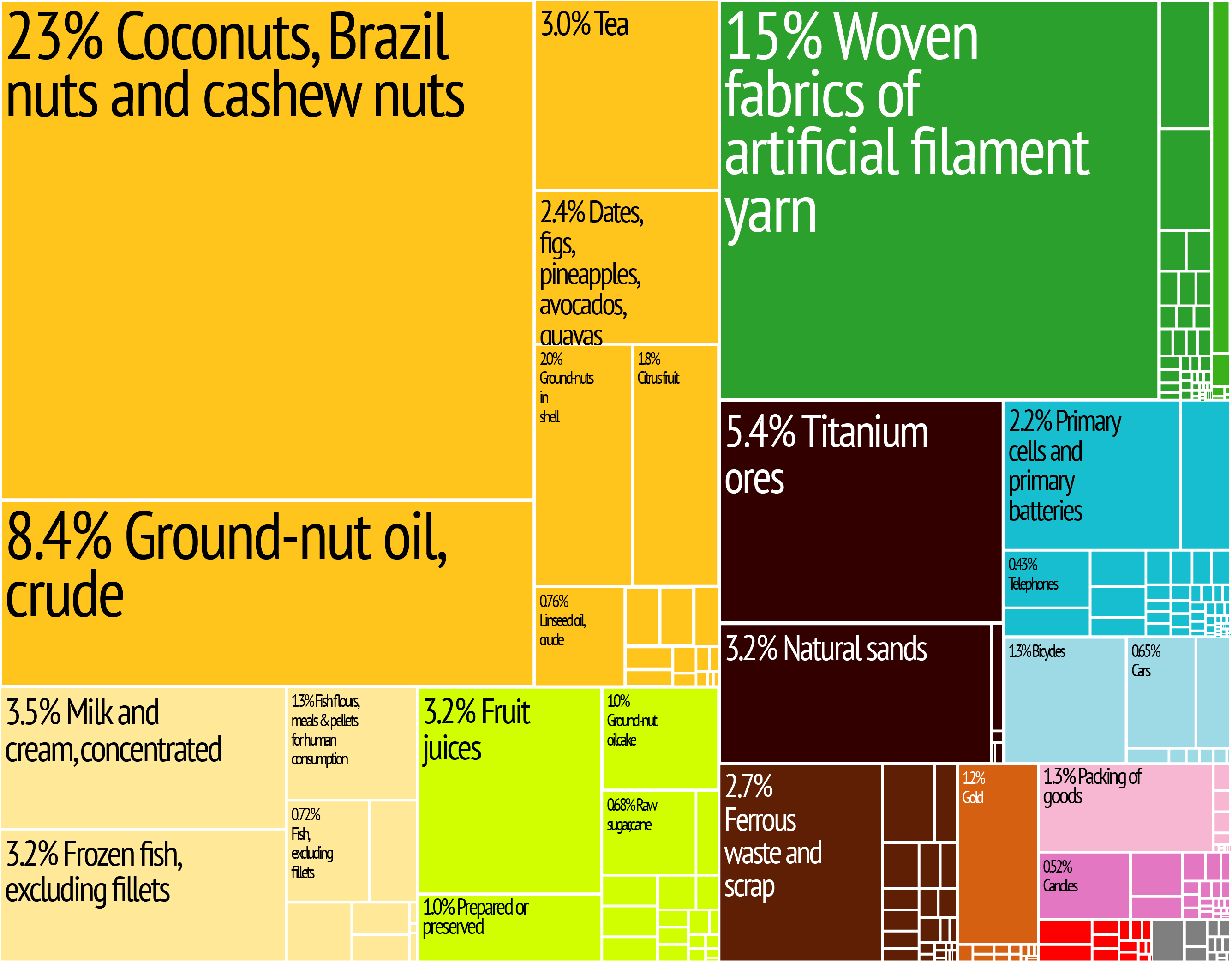 Gambia Export Treemap from MIT Harvard Economic Complexity Observatory